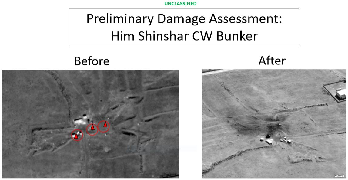 News Briefing Slide of 2018 bombing of Damascus and Homs released by the US Department of Defense. Preliminary Dammage Assessment: Him Shinshar Chemical Weapons Bunker (unclassified)